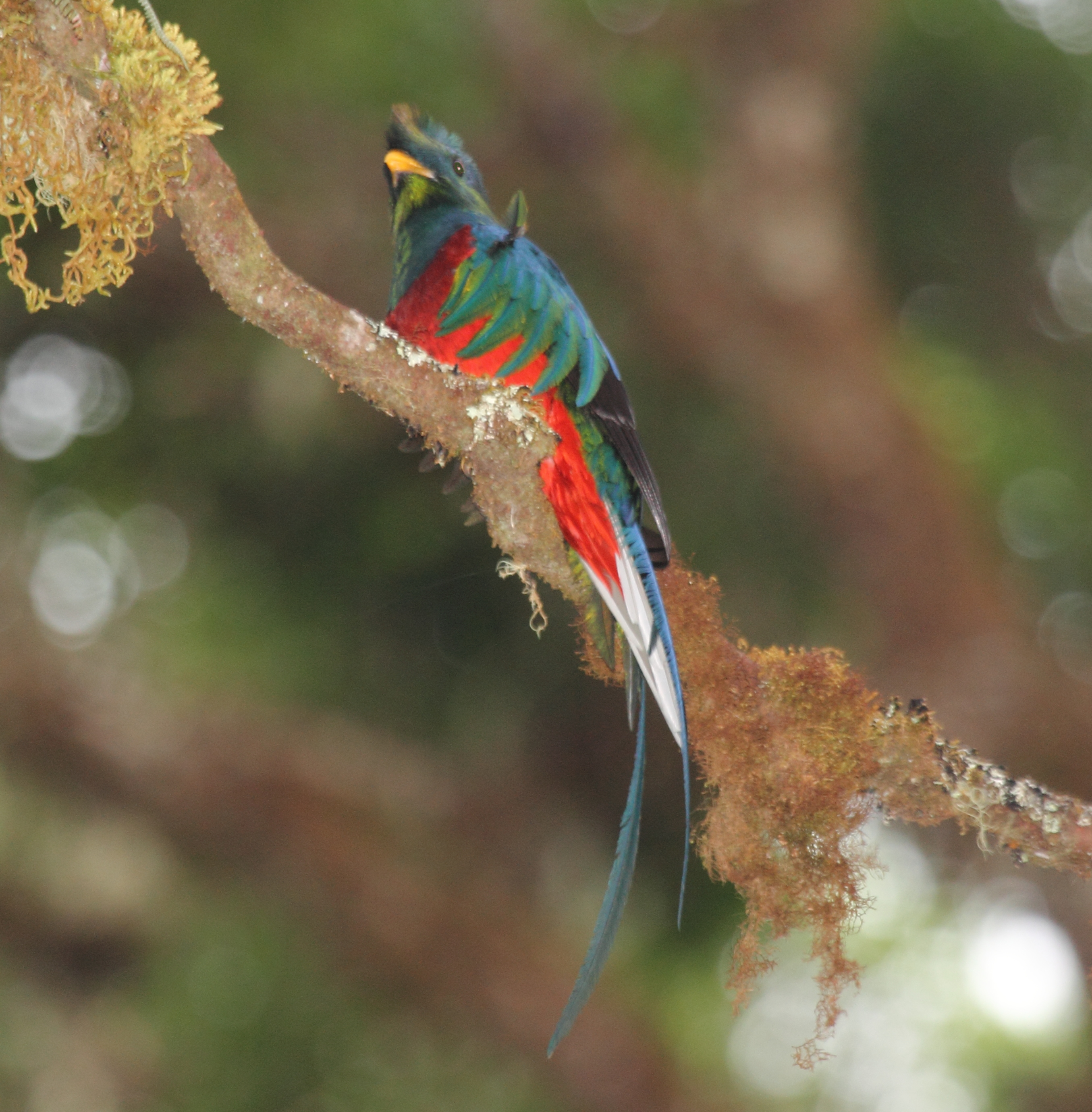 Photographed at Savegre, in Costa Rica.